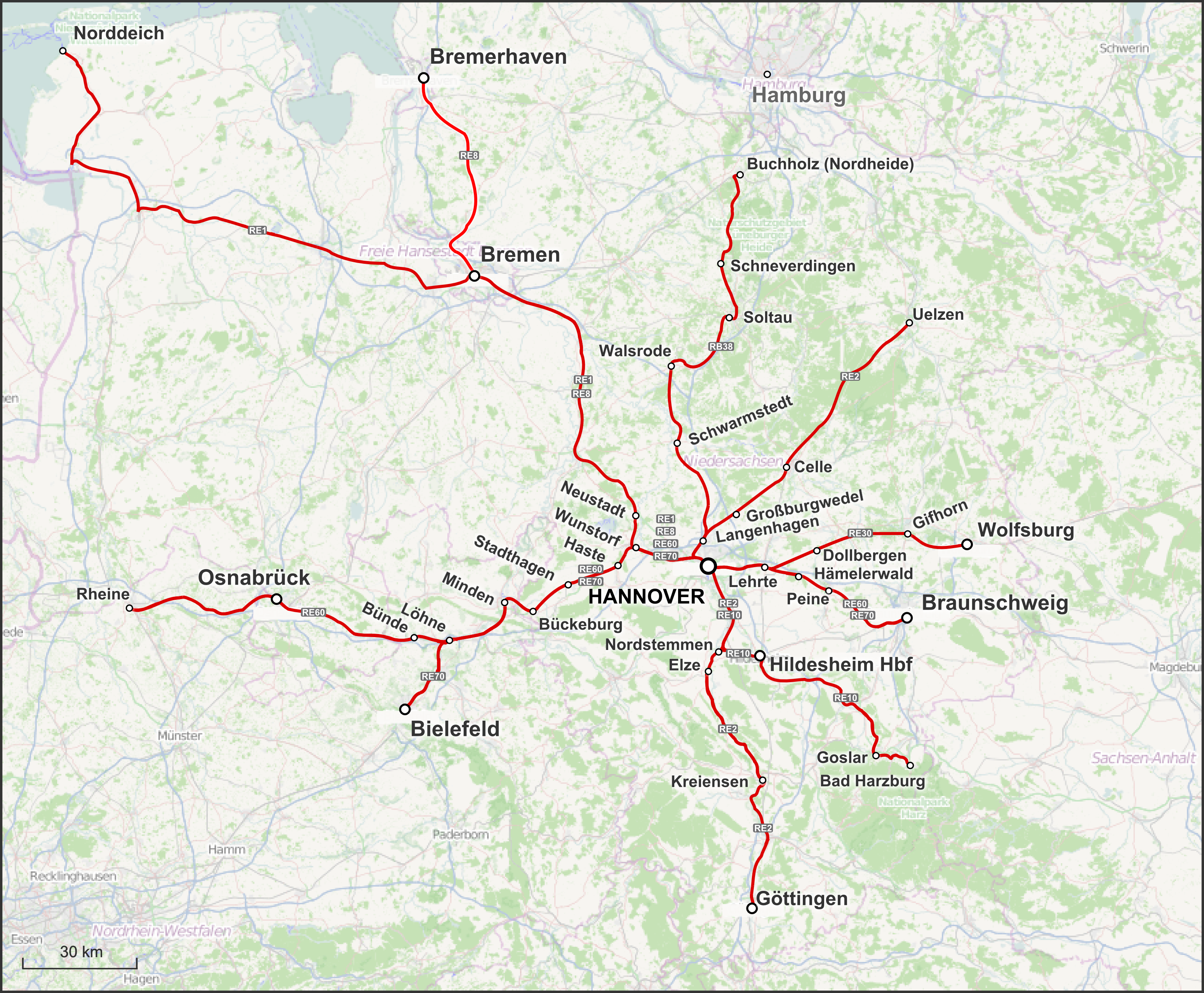 Map of Hannover Regional-Bahn as it was after time table change in December 2014